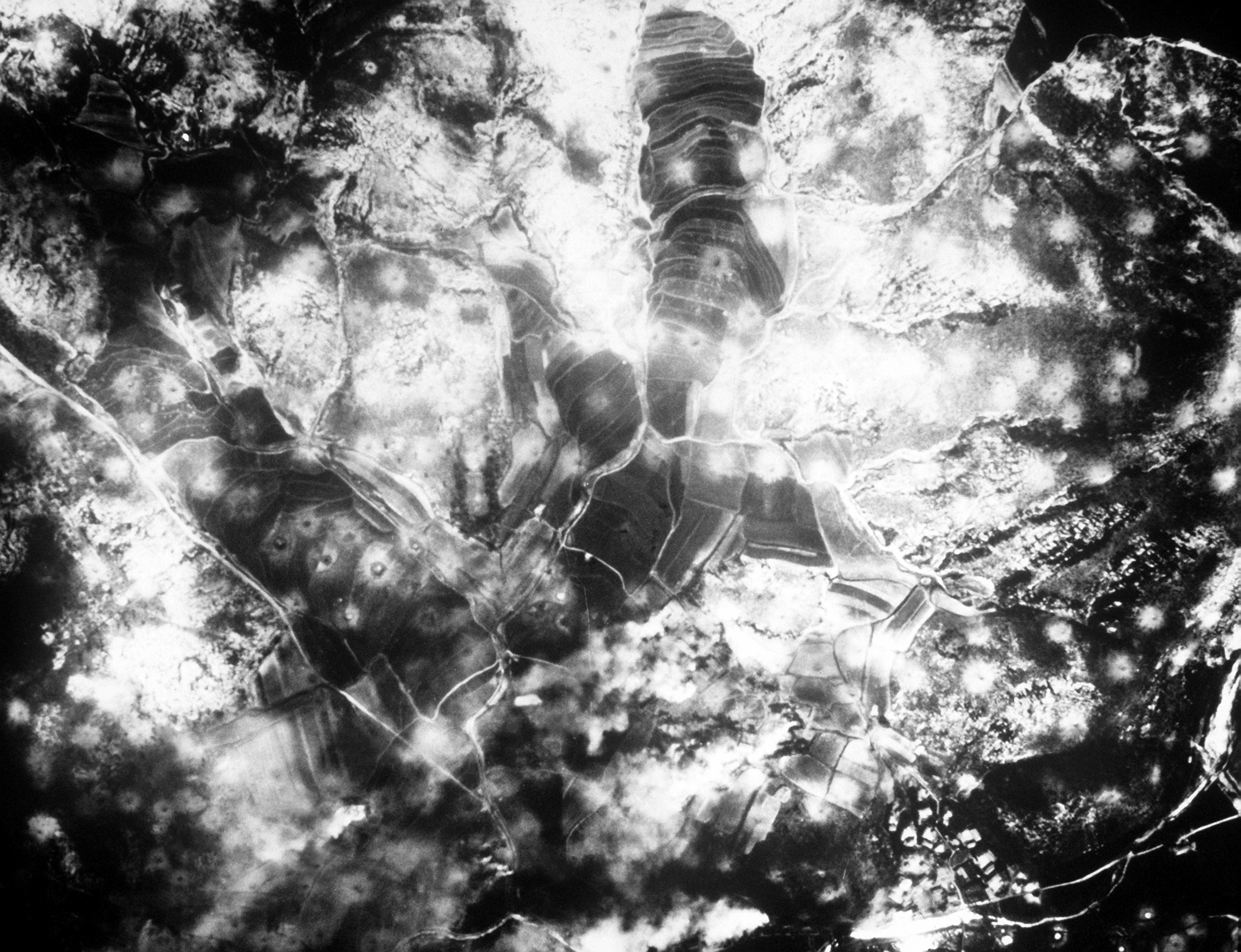 This post-strike photo of the Korea battle area west of the Naktong River near Waegwan shows where U.S. Air Force Boeing B-29s made a mass strike on 16 August 1950, at the request of Army Forces in Korea. This photo shows the density of the bombing pattern with craters from the 500-pound bombs evident throughout the whole photo. The 99 planes bombed an area approximately 3 and 1/2 miles by 7 and 1/2 miles, unloading more than 3,400 500-pound bombs. AIR AND SPACE MUSEUM#: 77297 AC